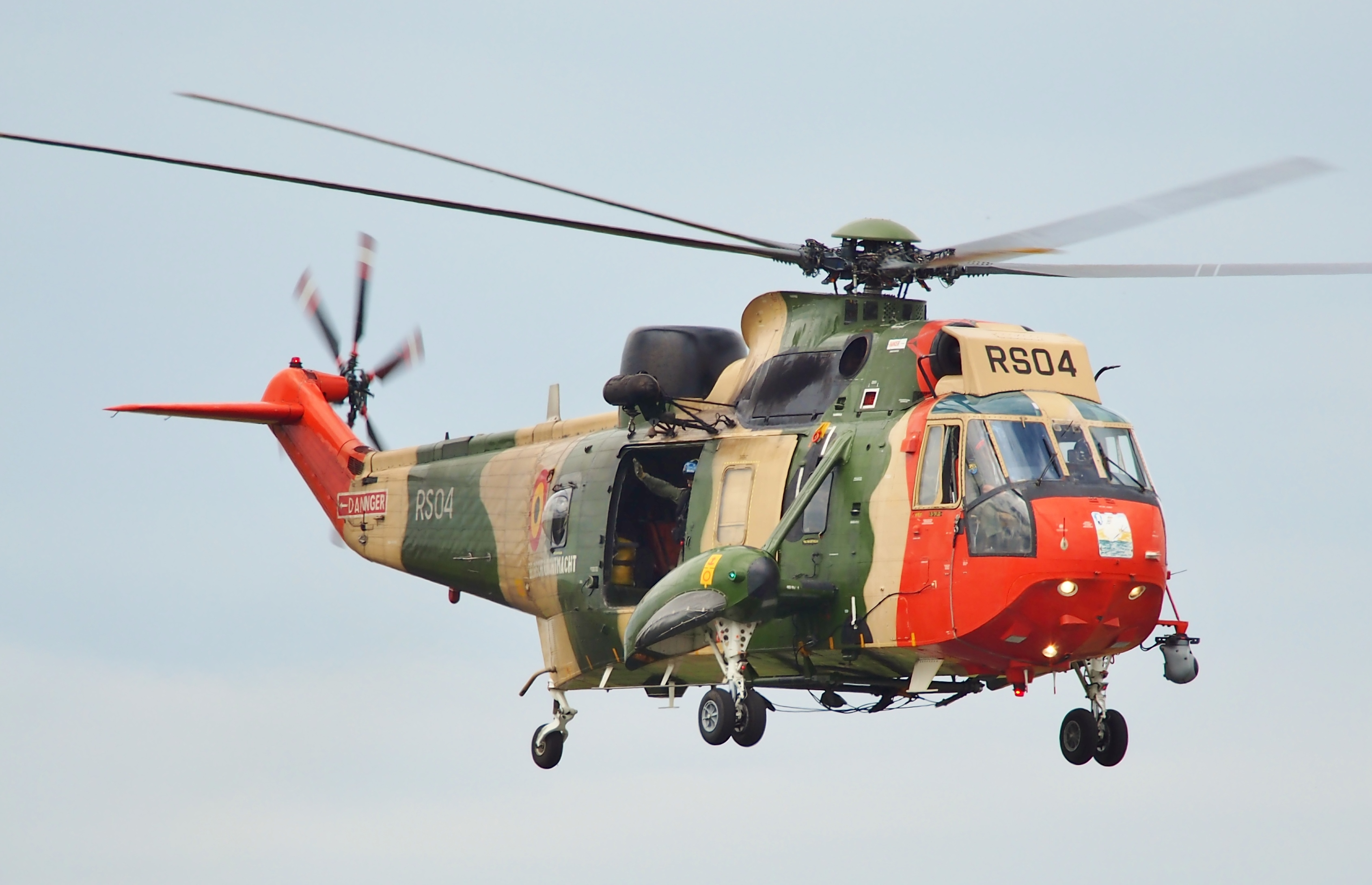 Westland Sea King Belgium Air Force (cropped)